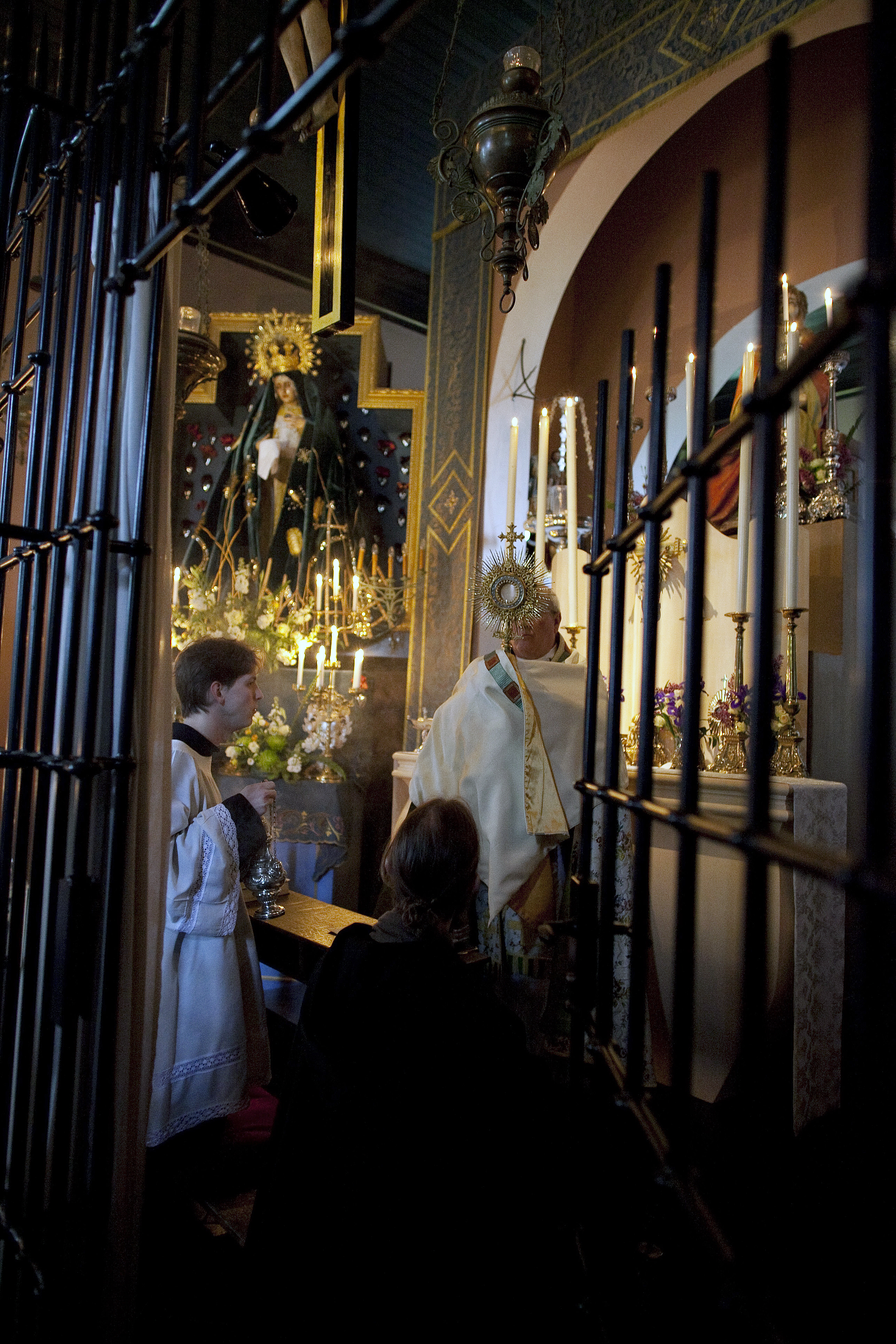 Father Wagenaar, Parish priest of the cathedral of Groningen, blesses the people with the blessed Sacrament during a pilgrimage to our lady of Warfhuizen in the Netherlands